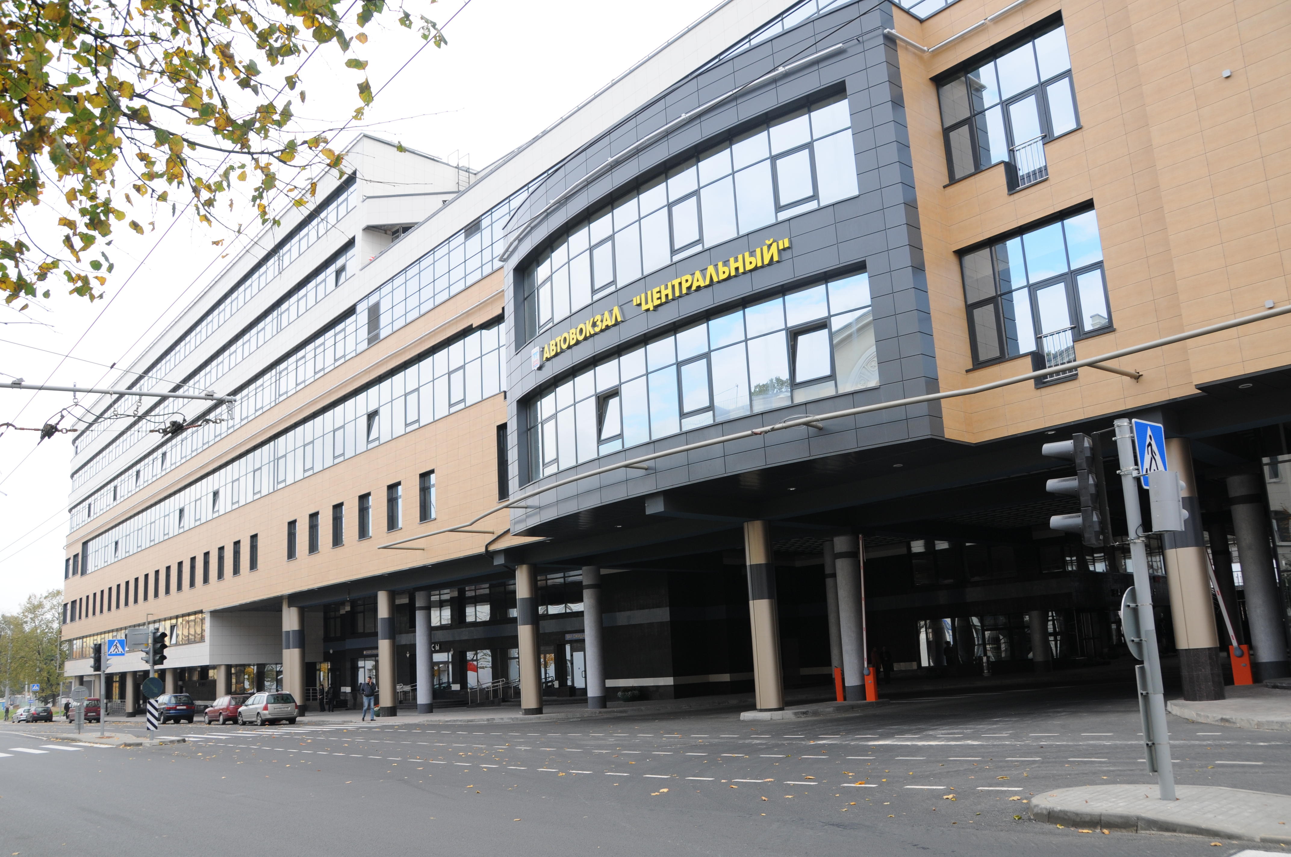 Minsk Central Bus Station